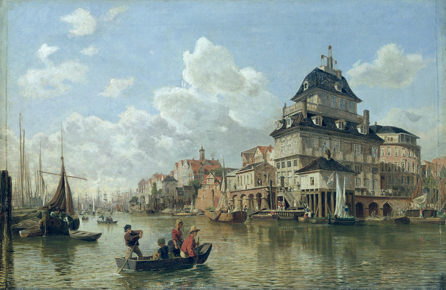 The "Baumhaus" was the customs building and exchange for the Hamburg Harbour. Built 1662 by Hans Hamelau it included the office of the harbourmaster, a concert hall and restaurant. It was demolished in 1857